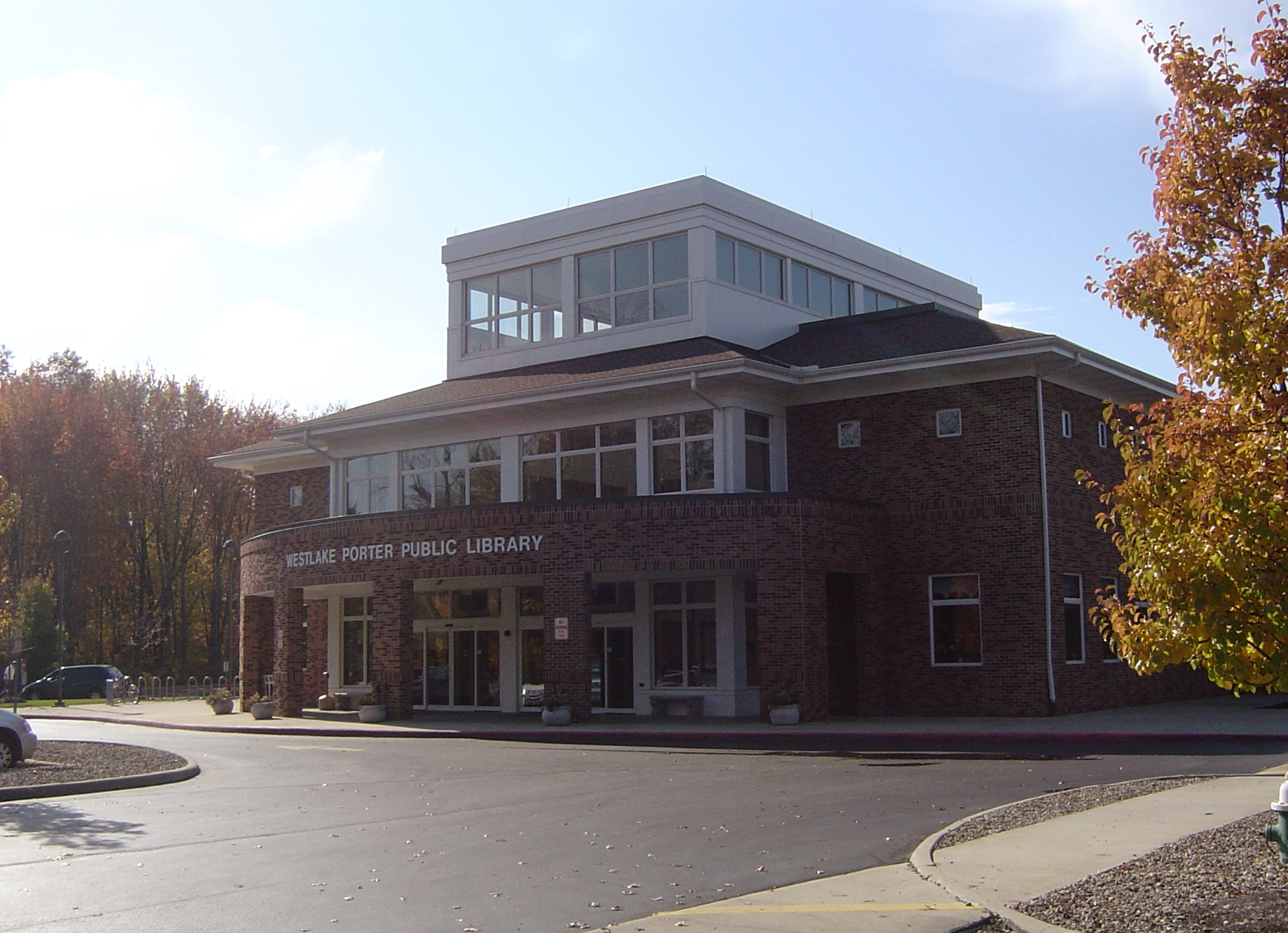 The entrance of the Westlake Porter Public Library in Westlake, Ohio.